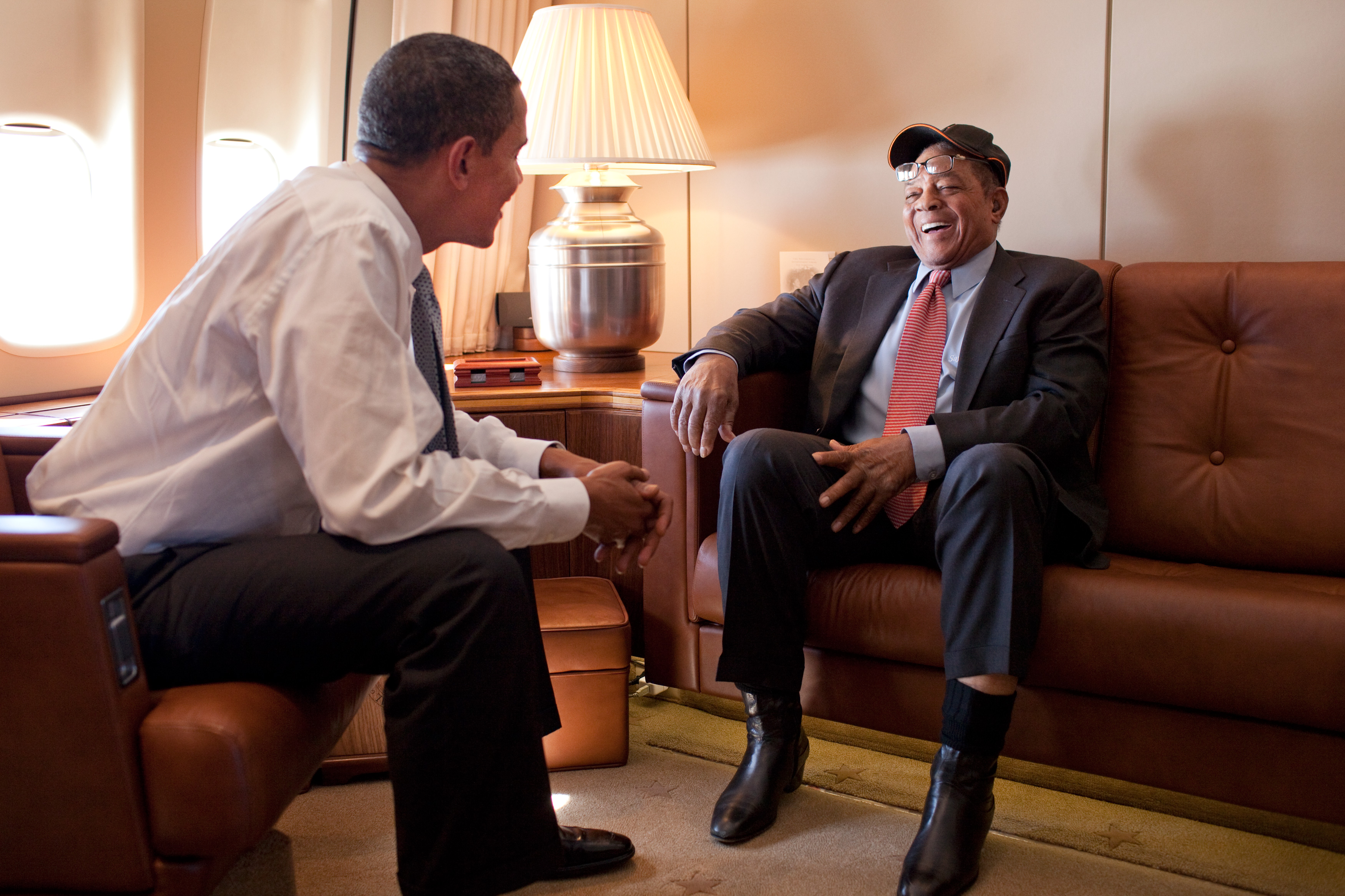 President Barack Obama talks with baseball great Willie Mays aboard Air Force One en route to the 2009 MLB All-Star Game in St. Louis, July 14, 2009.